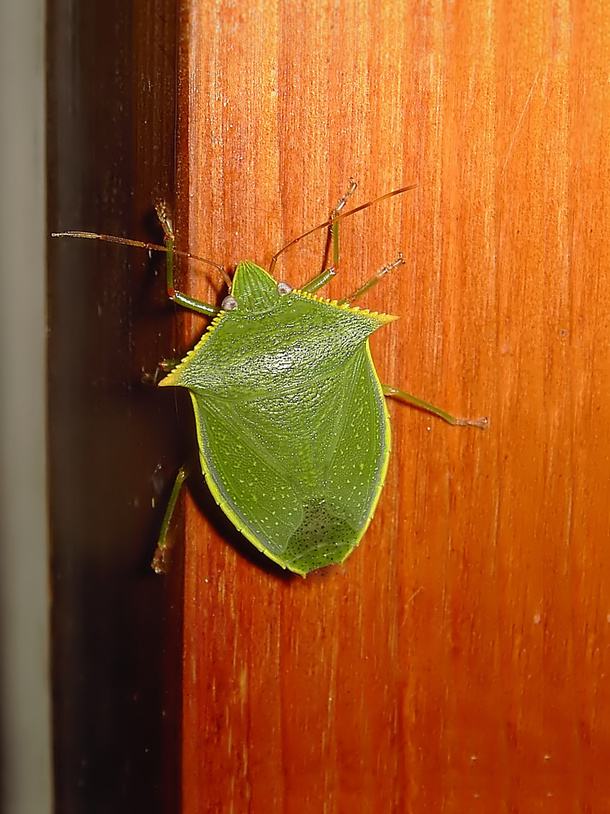 Pentatomid bug at Palm Tree House, Woodfordhill, Dominica, W.I.